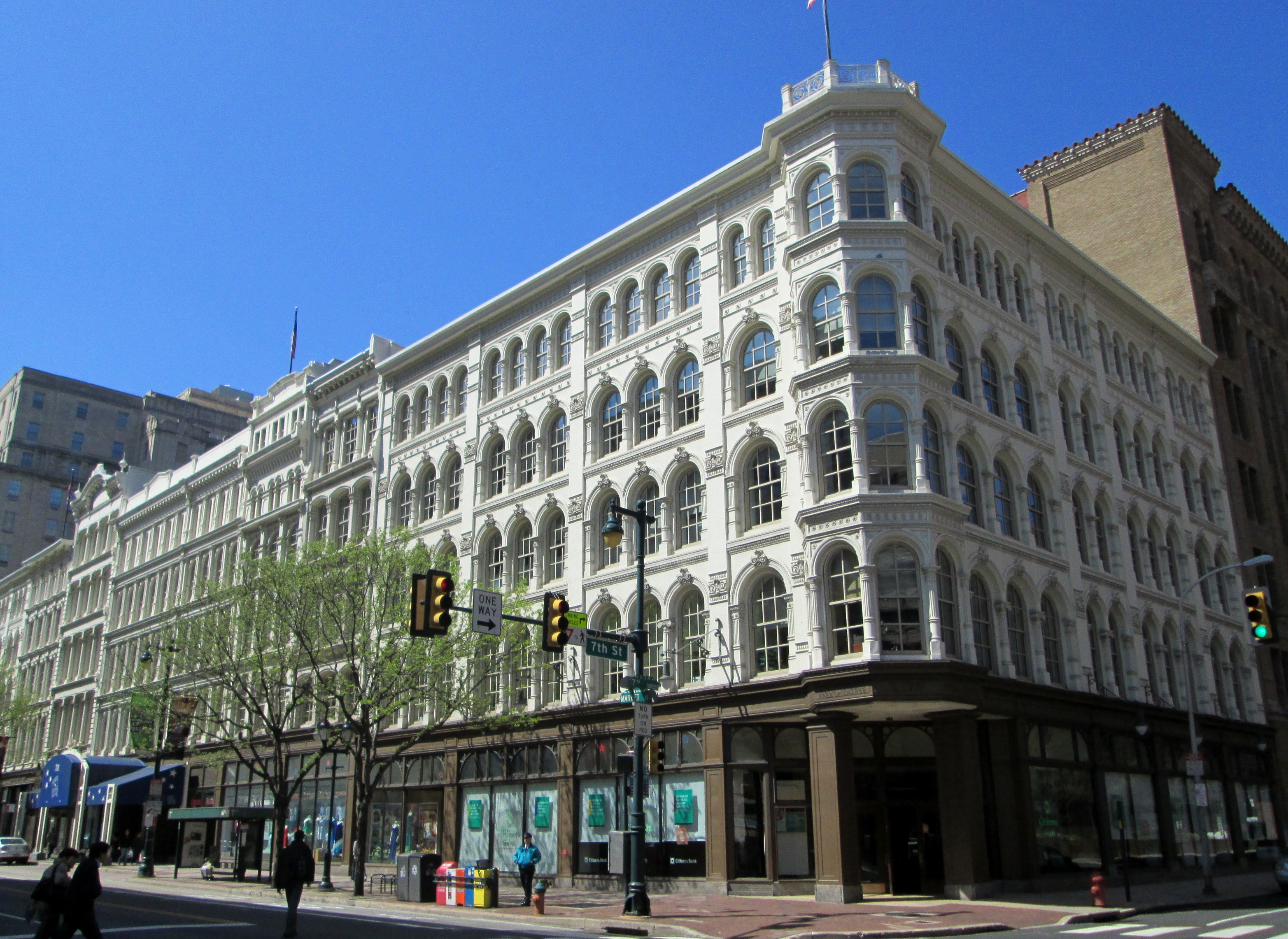 The east end of the former Lit Brothers Store Building(s), now Market Place East, at 701 Market Street between N. 7th and N. 8th Streets in the Center City area of Philadelphia, featuring an octagonal tower on the corner.